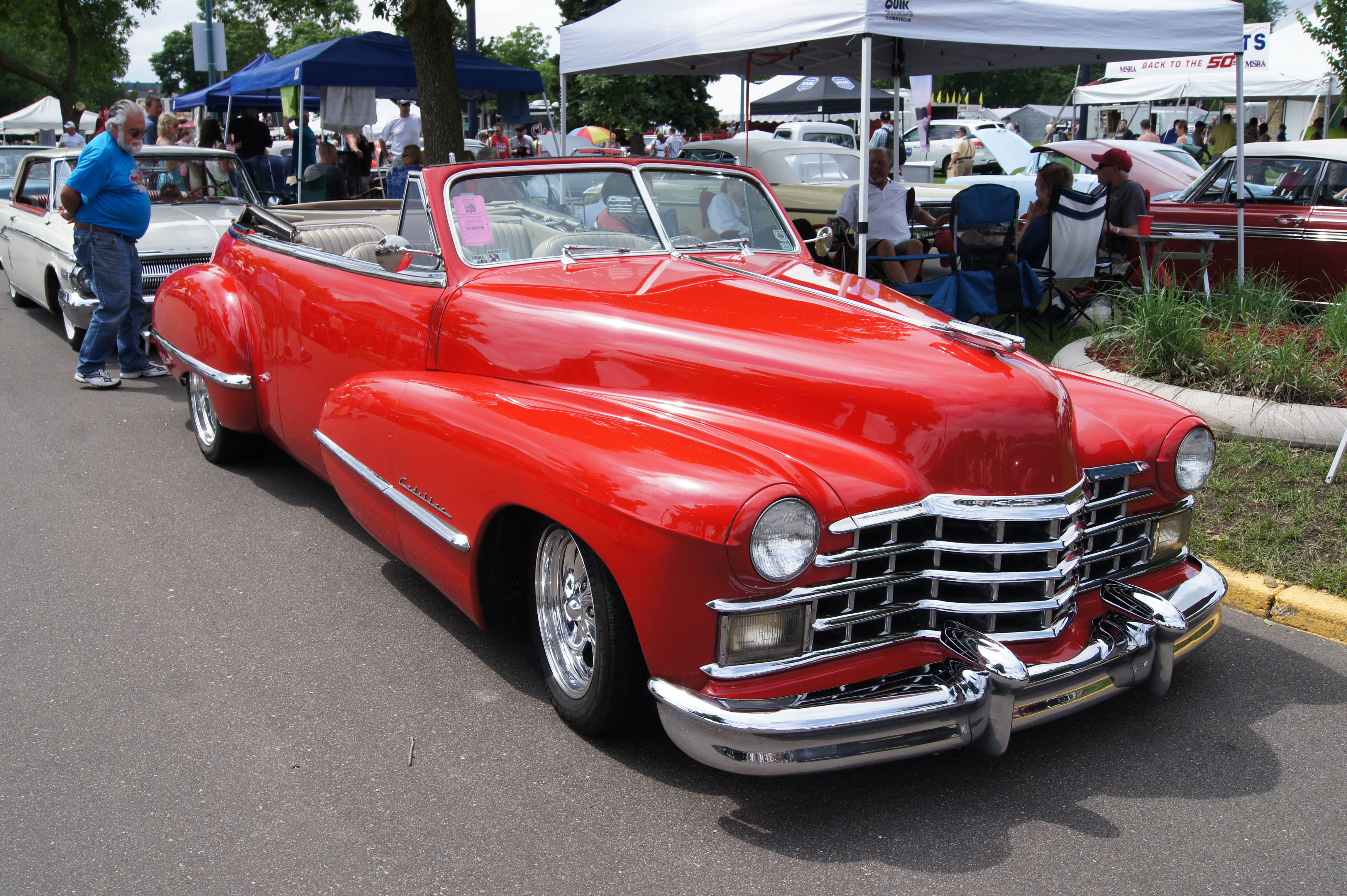 MSRA “BACK TO THE 50′s” 40th ANNIVERSARY June 21-23, 2013 State Fairgrounds St. Paul Minnesota More Car Pictures